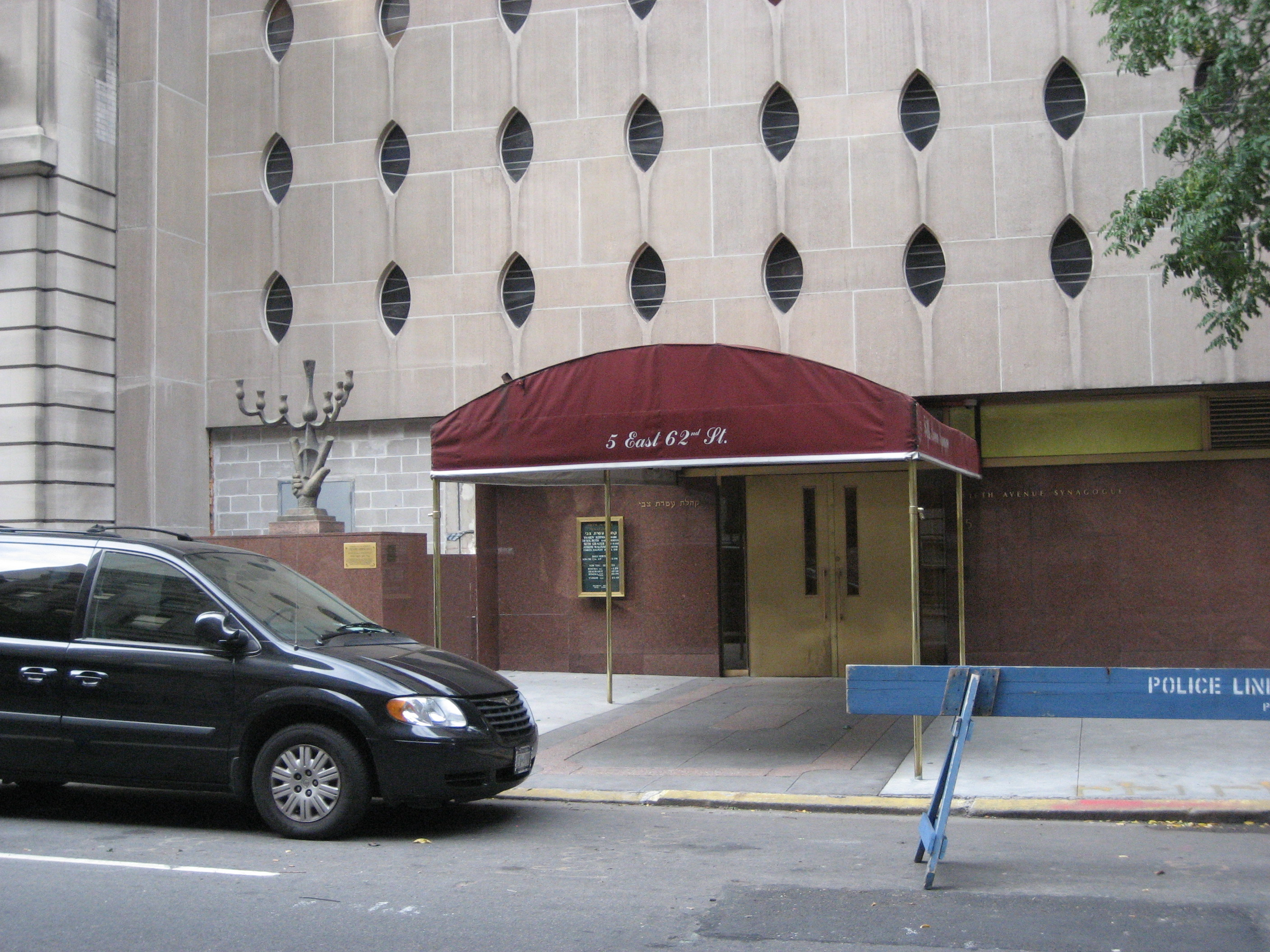 Fifth Avenue Synagogue in New York City